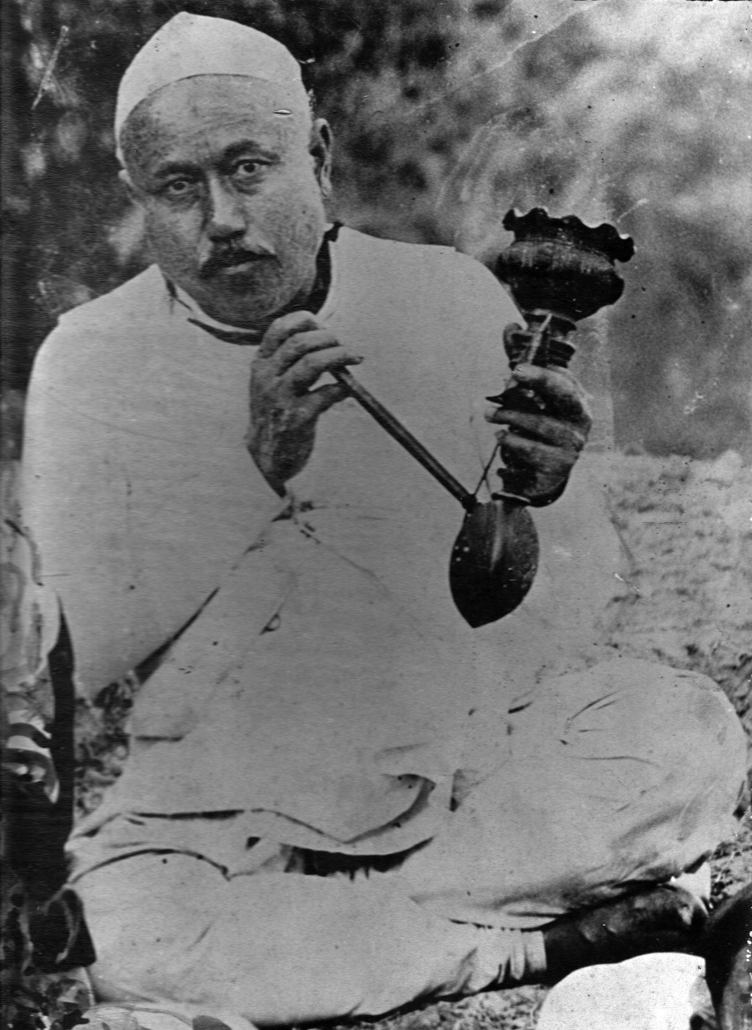 Portrait of Nepal Bhasa poet Yogbir Singh Kansakar (1885-1942) of Kathmandu.